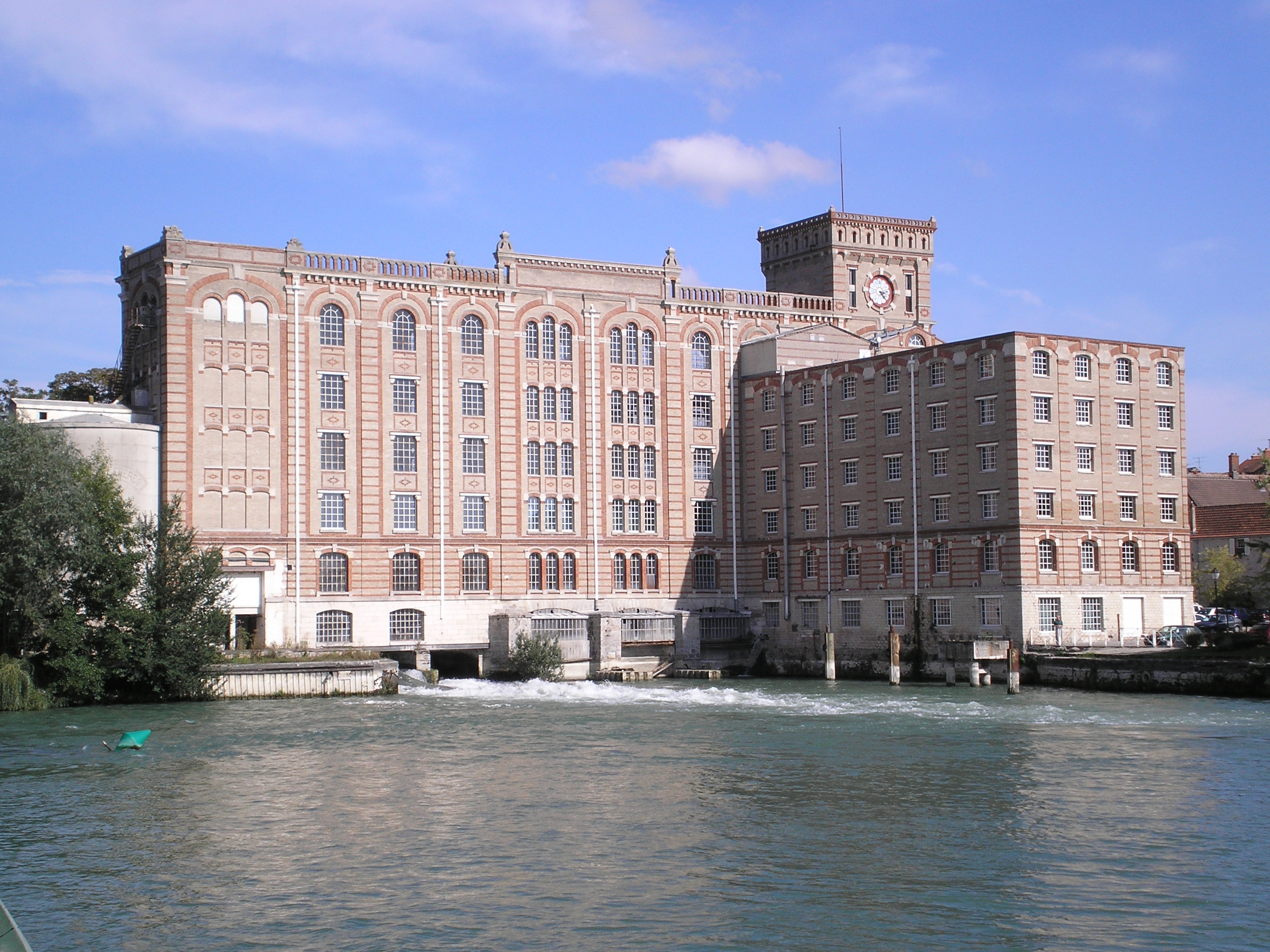 Watermill on river Seine, Nogent-sur-Seine, France.